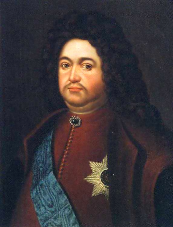 Fedor Golovin